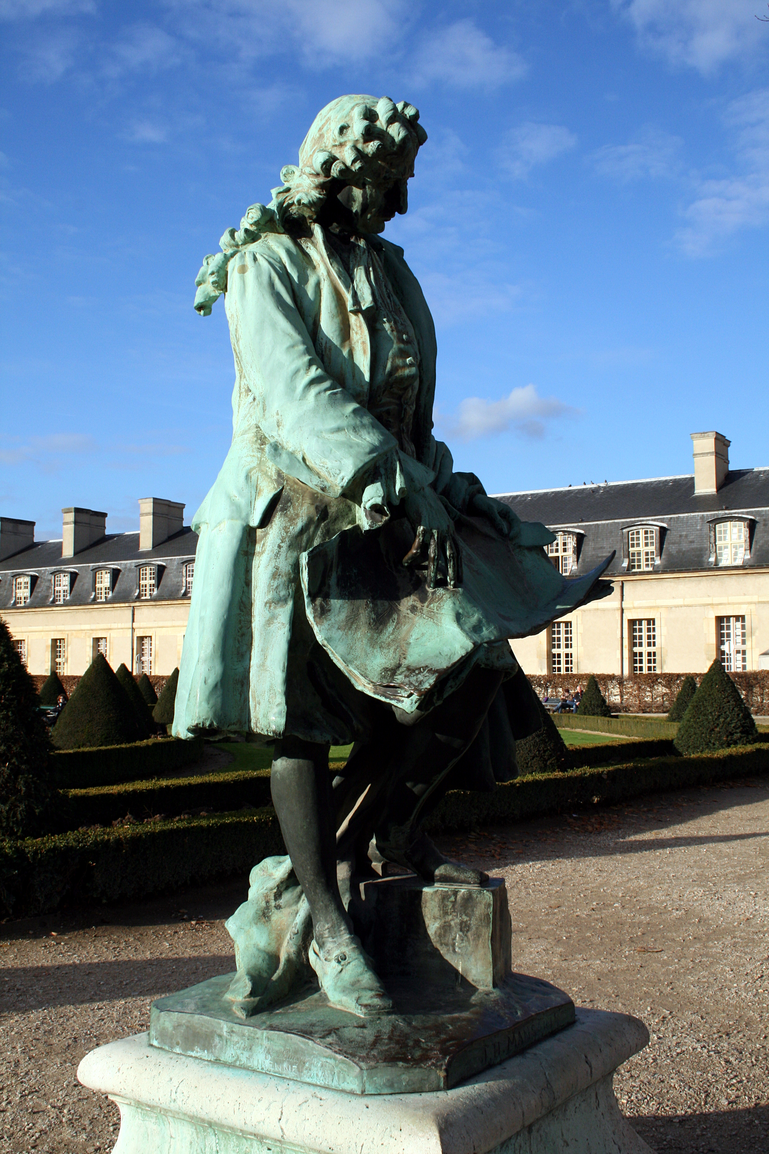 Statue representing the French architect Jules Hardouin-Mansart, a bronze work made in 1908 by Ernest Henri Dubois and placed in the garden of the Intendant of the Hôtel des Invalides in Paris.